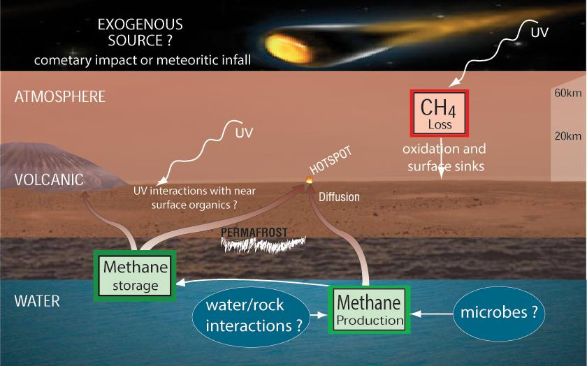 11.02.2012 Potential Sources and Sinks of Methane on Mars If the atmosphere of Mars contains methane, various possibilities have been proposed for where the methane could come from and how it could disappear. Potential non-biological sources for methane on Mars include comets, degradation of interplanetary dust particles by ultraviolet light, and interaction between water and rock. A potential biological source would be microbes, if microbes have ever lived on Mars. Potential sinks for removing methane from the atmosphere are photochemistry in the atmosphere and loss of methane to the surface. Image Credit: NASA/JPL-Caltech, SAM/GSFC